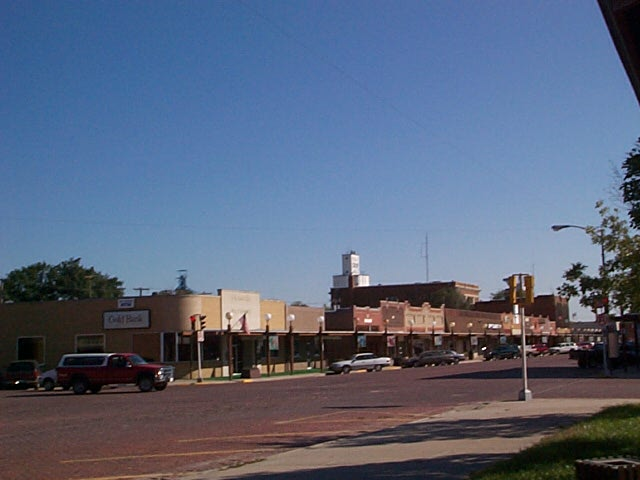 Picture of downtown Oberlin, Kansas facing down Penn Avenue.